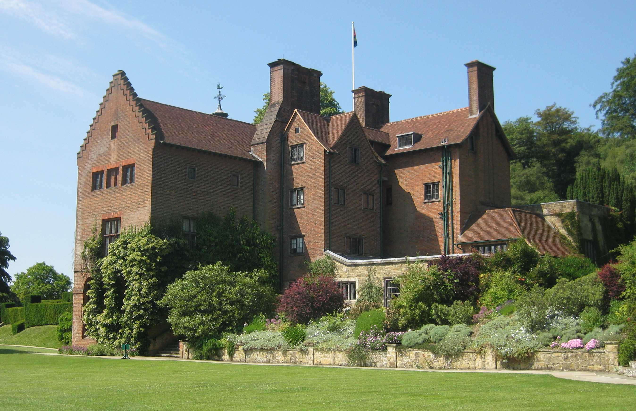 Chartwell House. Winston Churchill's family home.